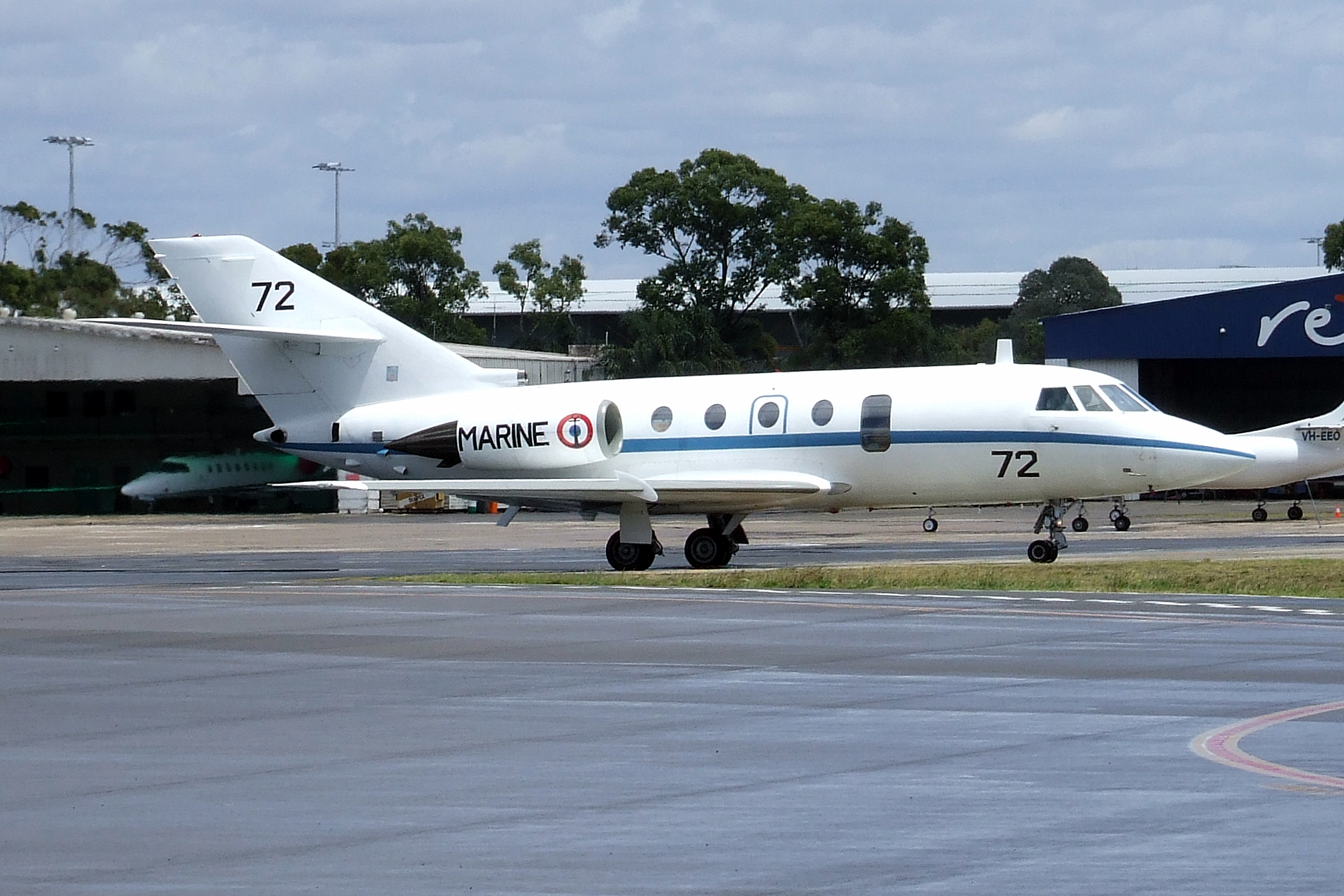 Aviation navale Dassault Falcon 20H Gardian No. 72. Sydney Airport.